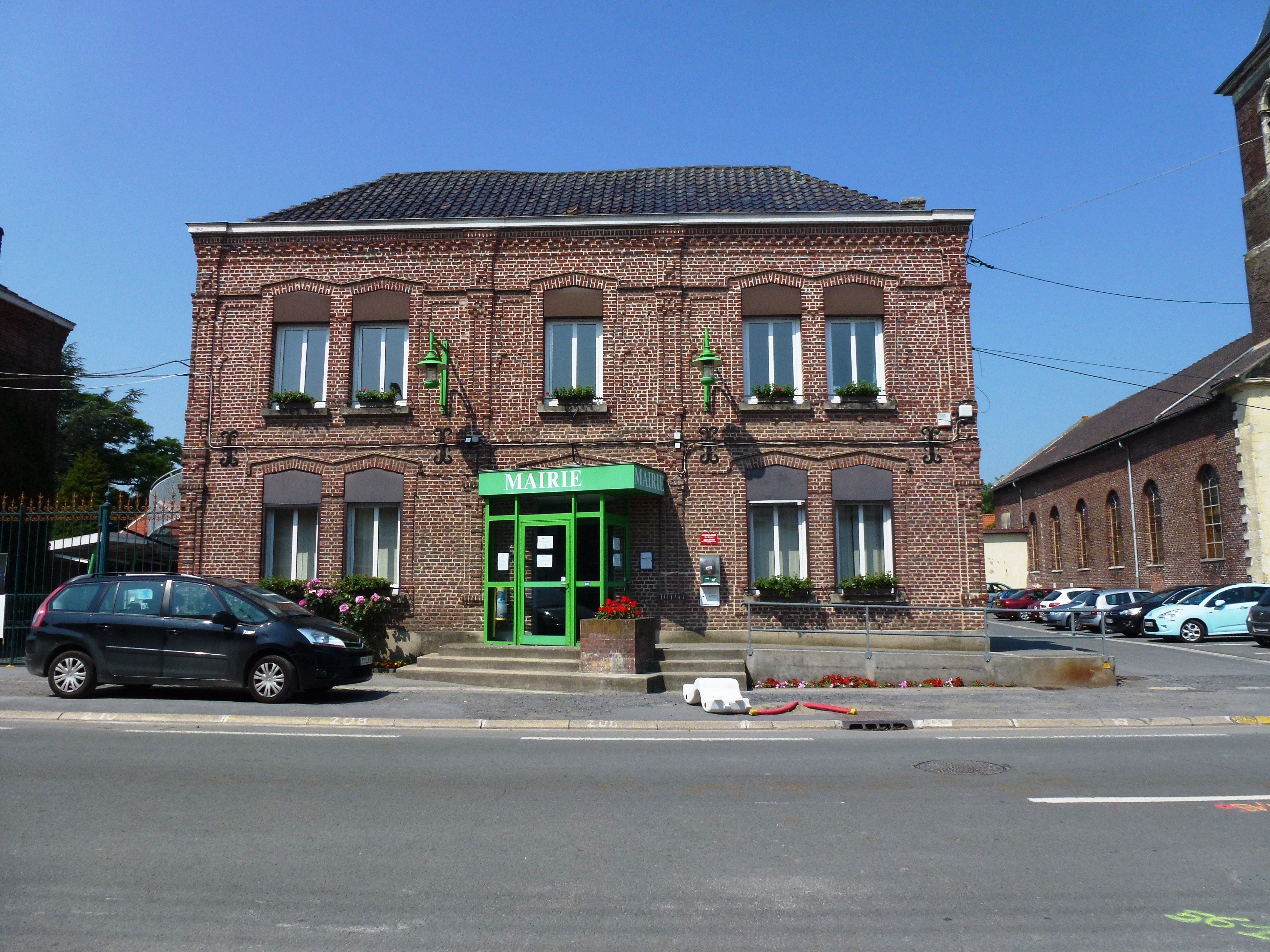 Faumont (Nord, Fr) mairie